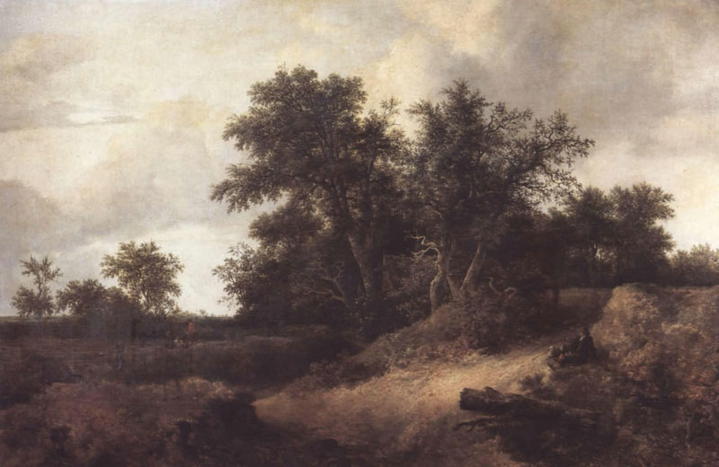 Dune Landscape